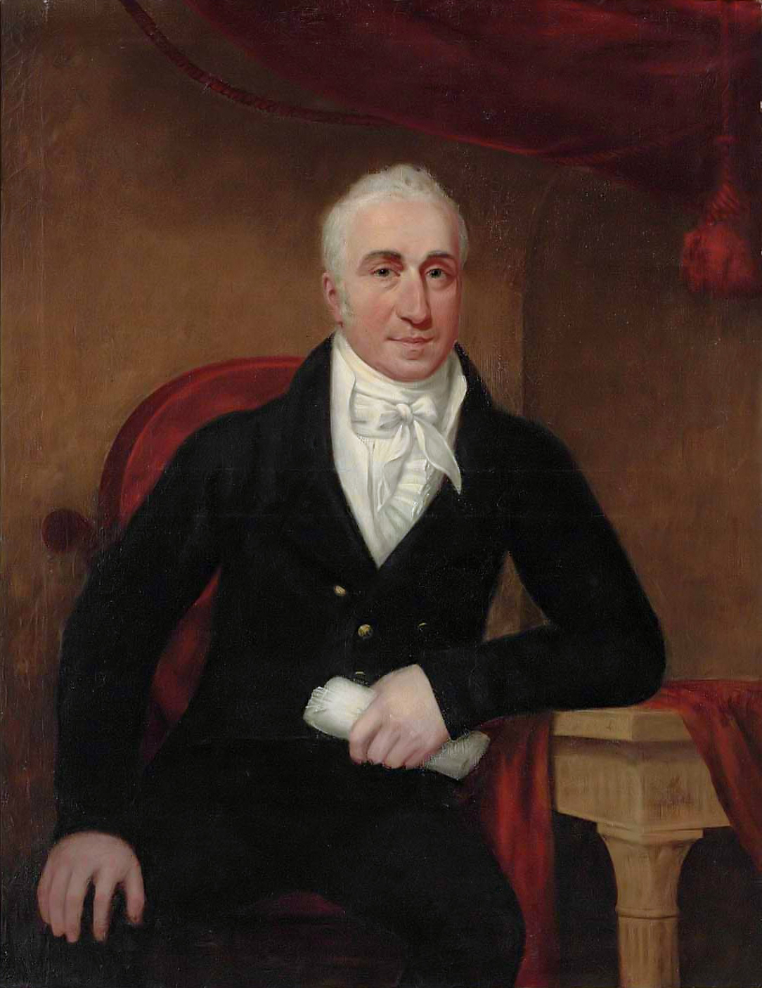 Manasseh Lopes, 1st Bt (1755-1831) oil on canvas 112.6 x 87 cm